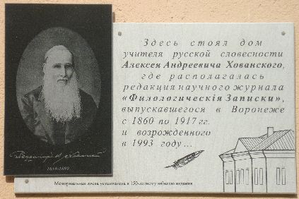 Мемориальная_доска_Хованскому